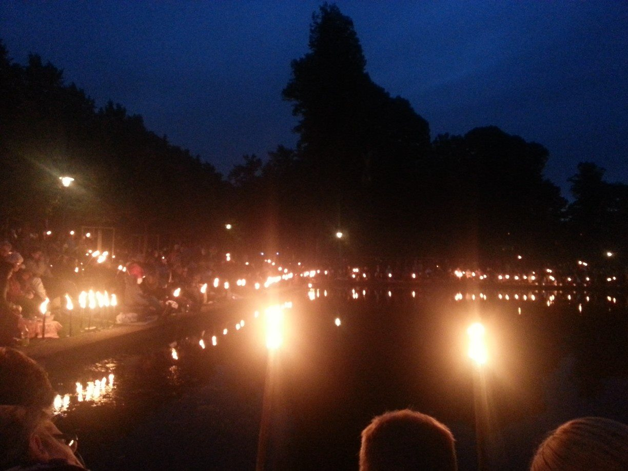 Torch glow at the no-cost outdoor concert „Musik und Licht am Hollersee“ in Bremen, Germany, in September 2013